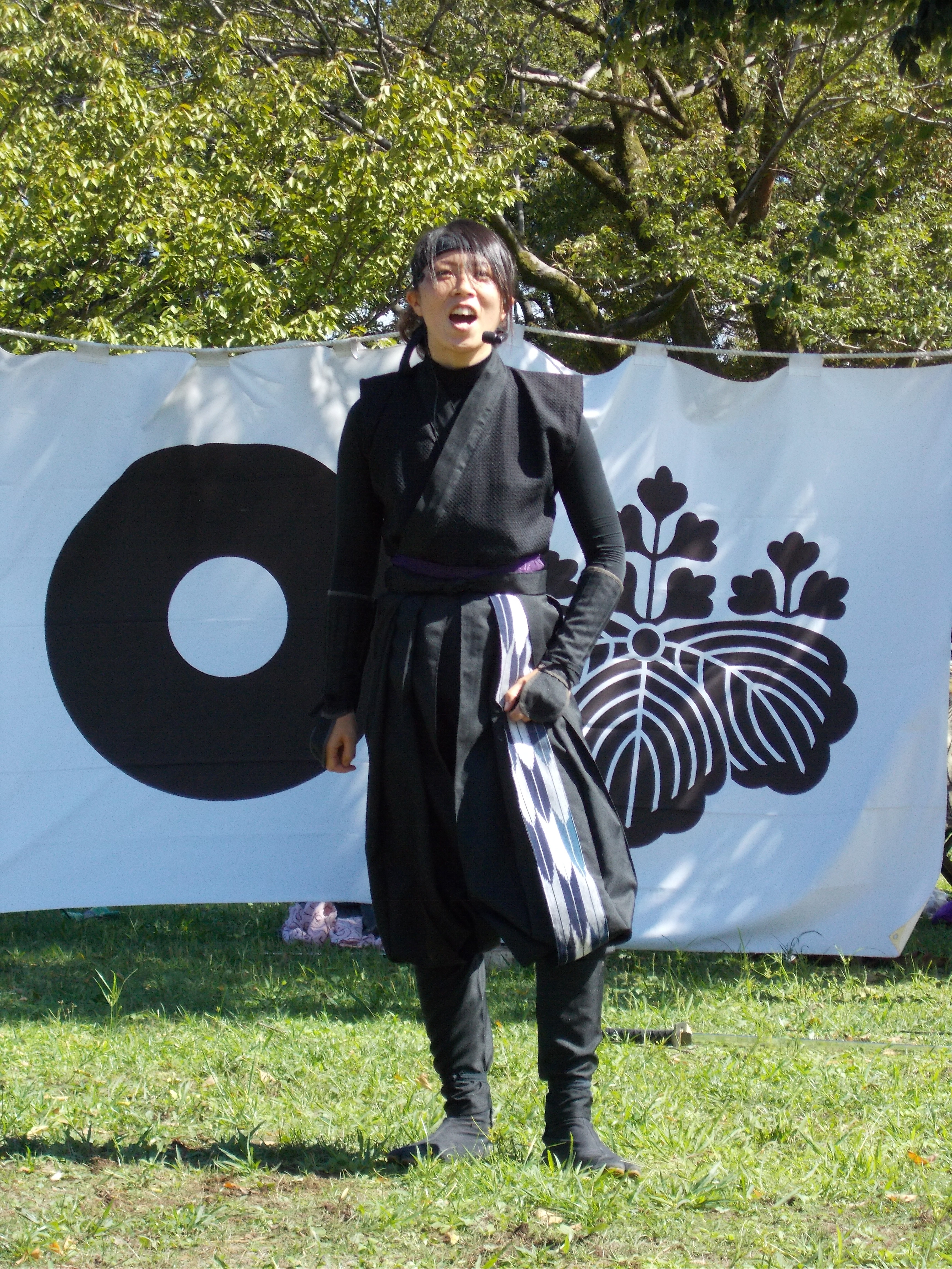 Kochō, Hattori Hanzō and the Ninjas. Loc: Nagoya castle, Nagoya city, Aichi Prefecture, Japan. 徳川家康と服部半蔵忍者隊の胡蝶 撮影場所 愛知県名古屋市・名古屋城